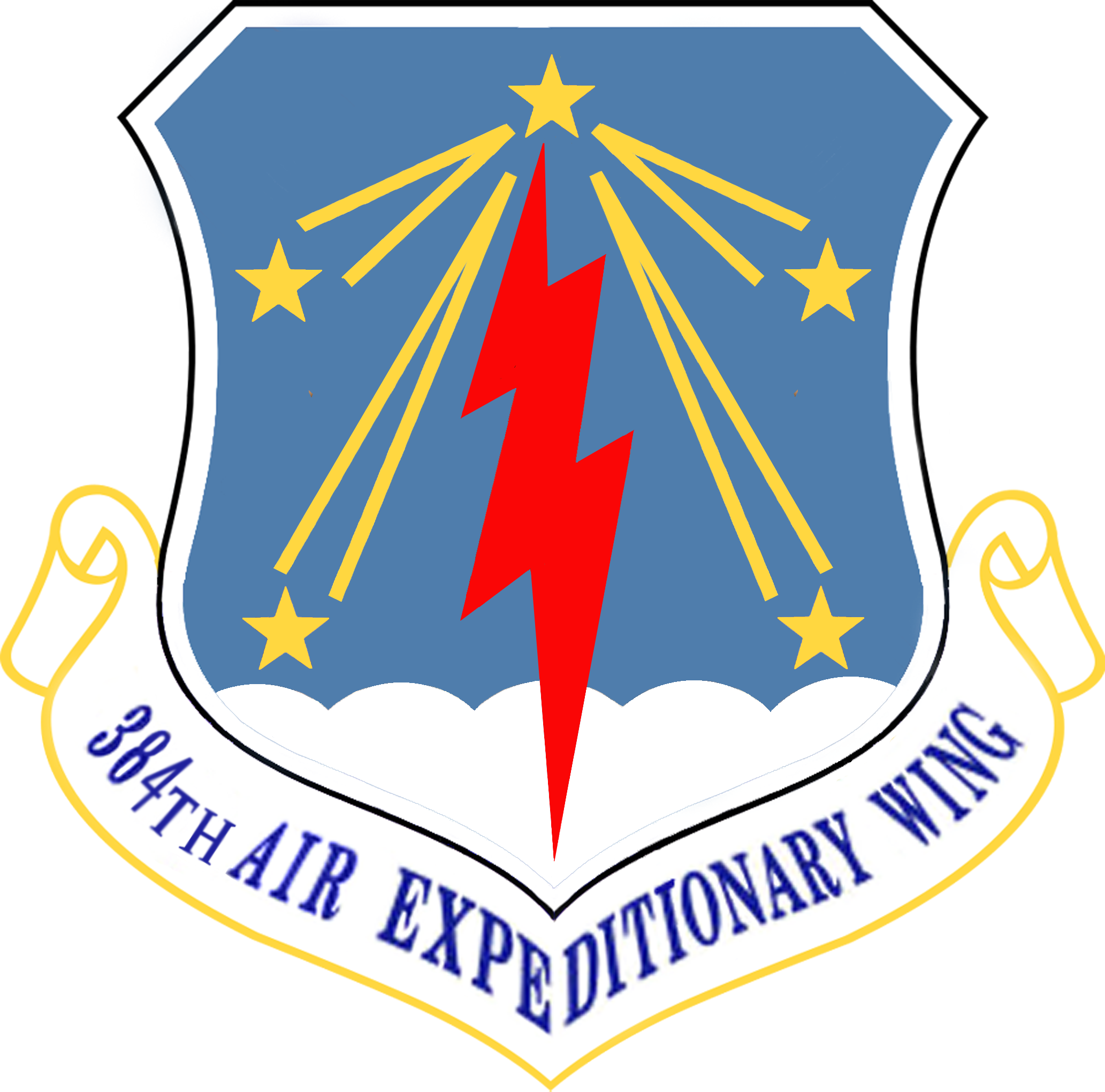 Emblem of the United States Air Force 384th Air Expeditionary Wing